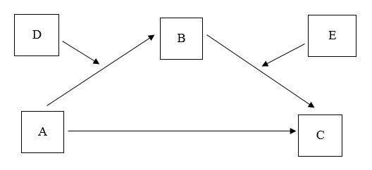 Conceptual Diagram for Conditional Process Model of Mediation with Two Moderators